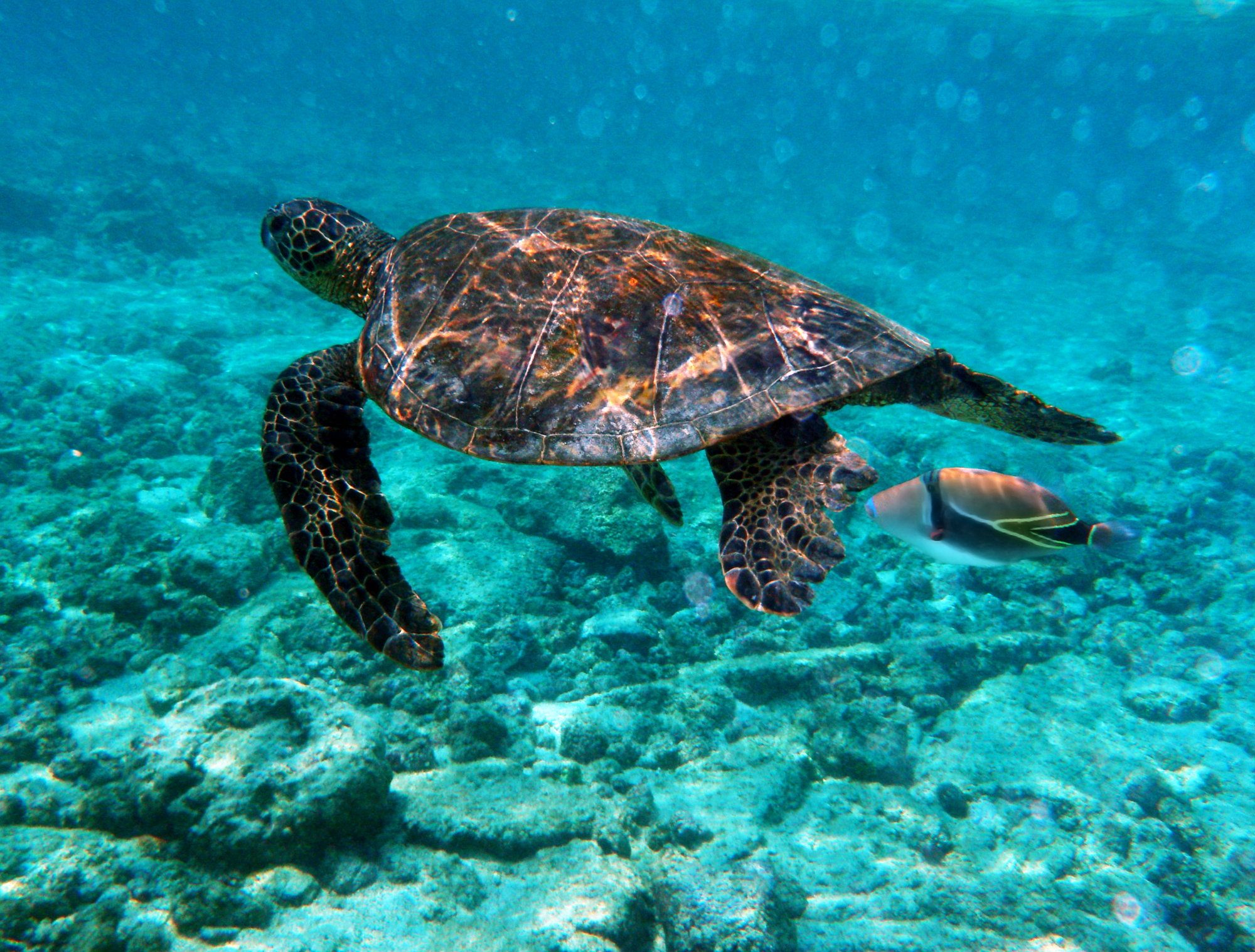 Picasso Triggerfish, Rhinecanthus aculeatus is attacking Green Turtle, "Chelonia mydas", who swims above his nest